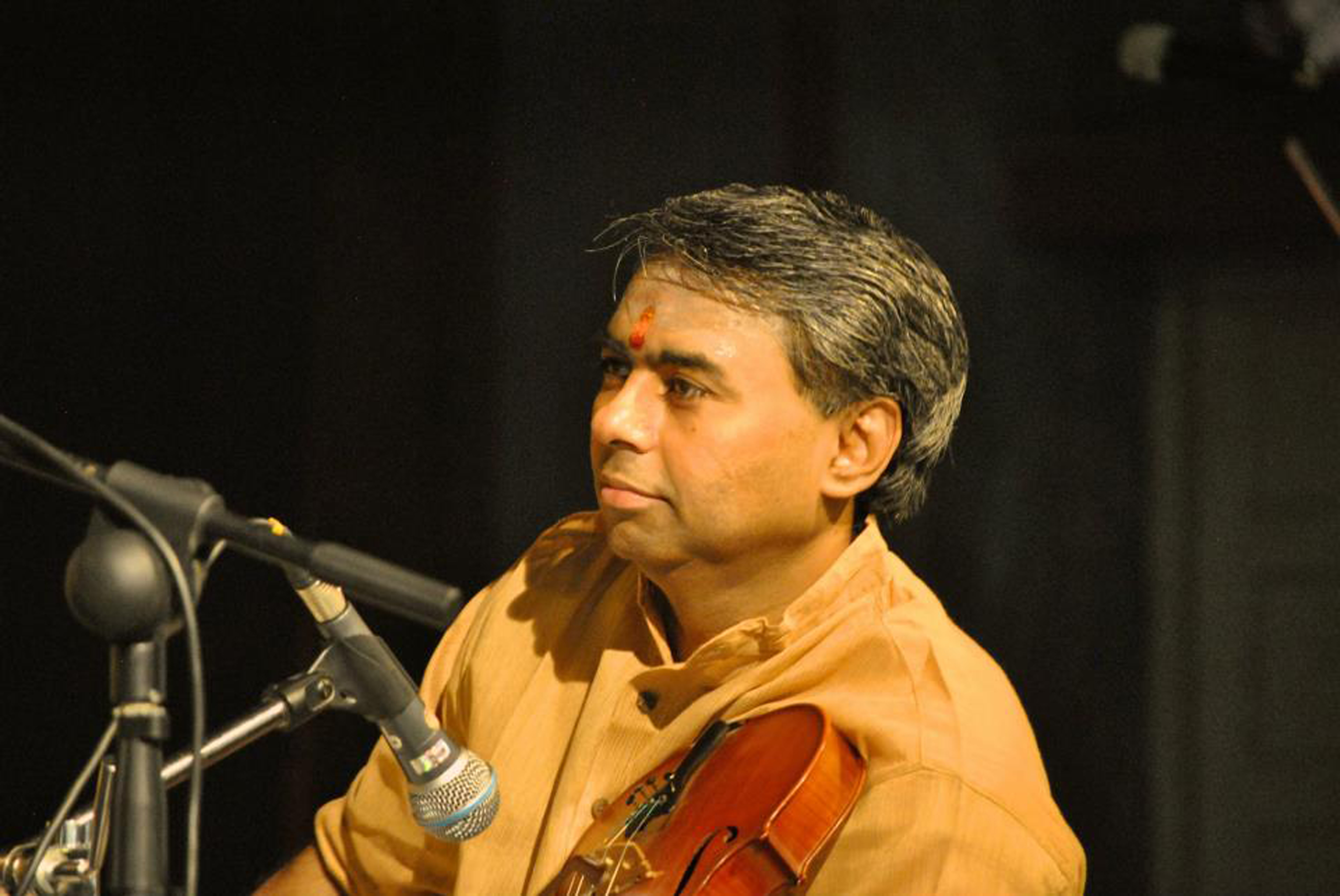 Vidwan Sri. R.K. Shriramkumar is an esteemed violinst from a family of phenomenal musicians.